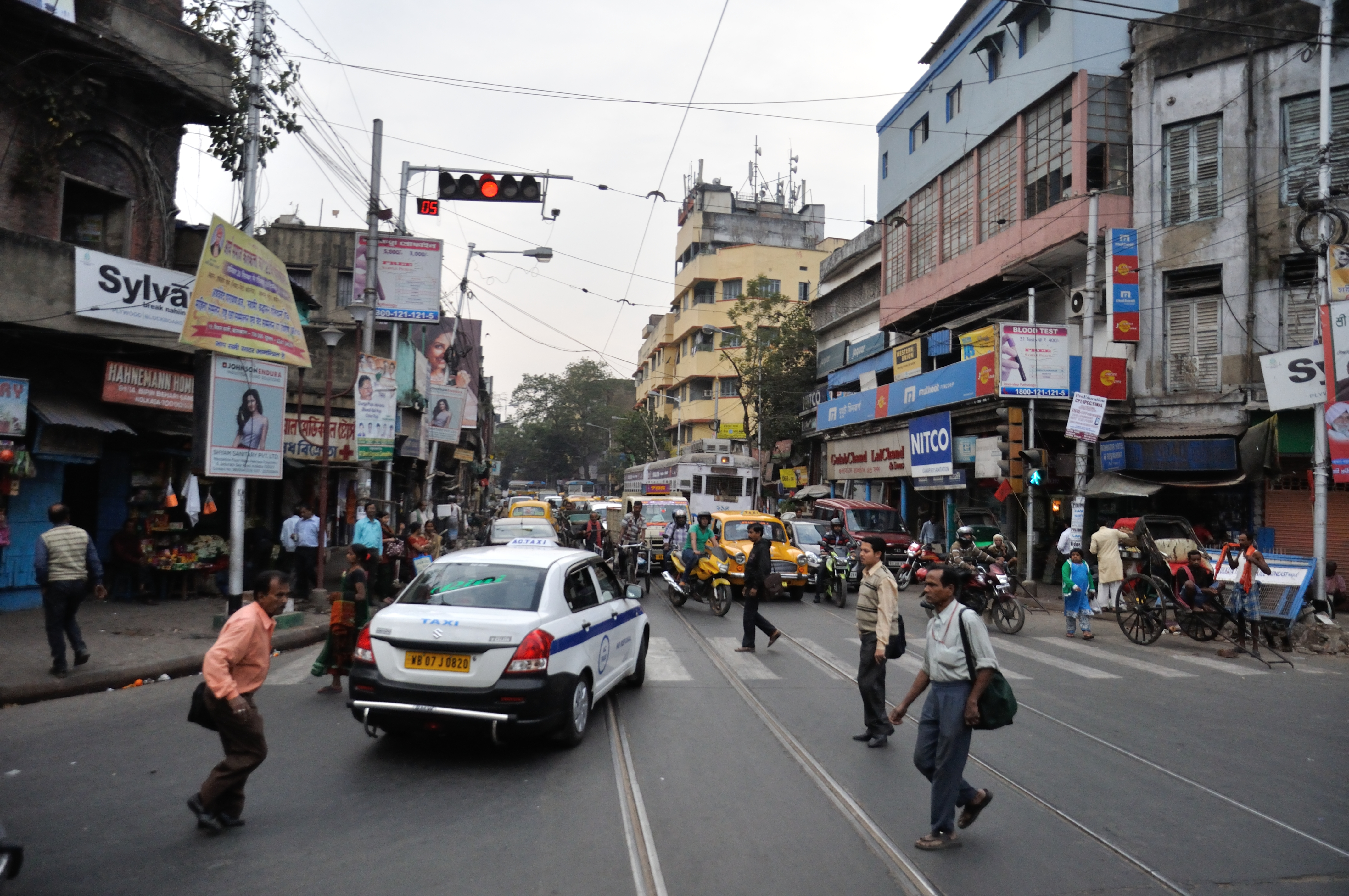 Photographed in Kolkata.